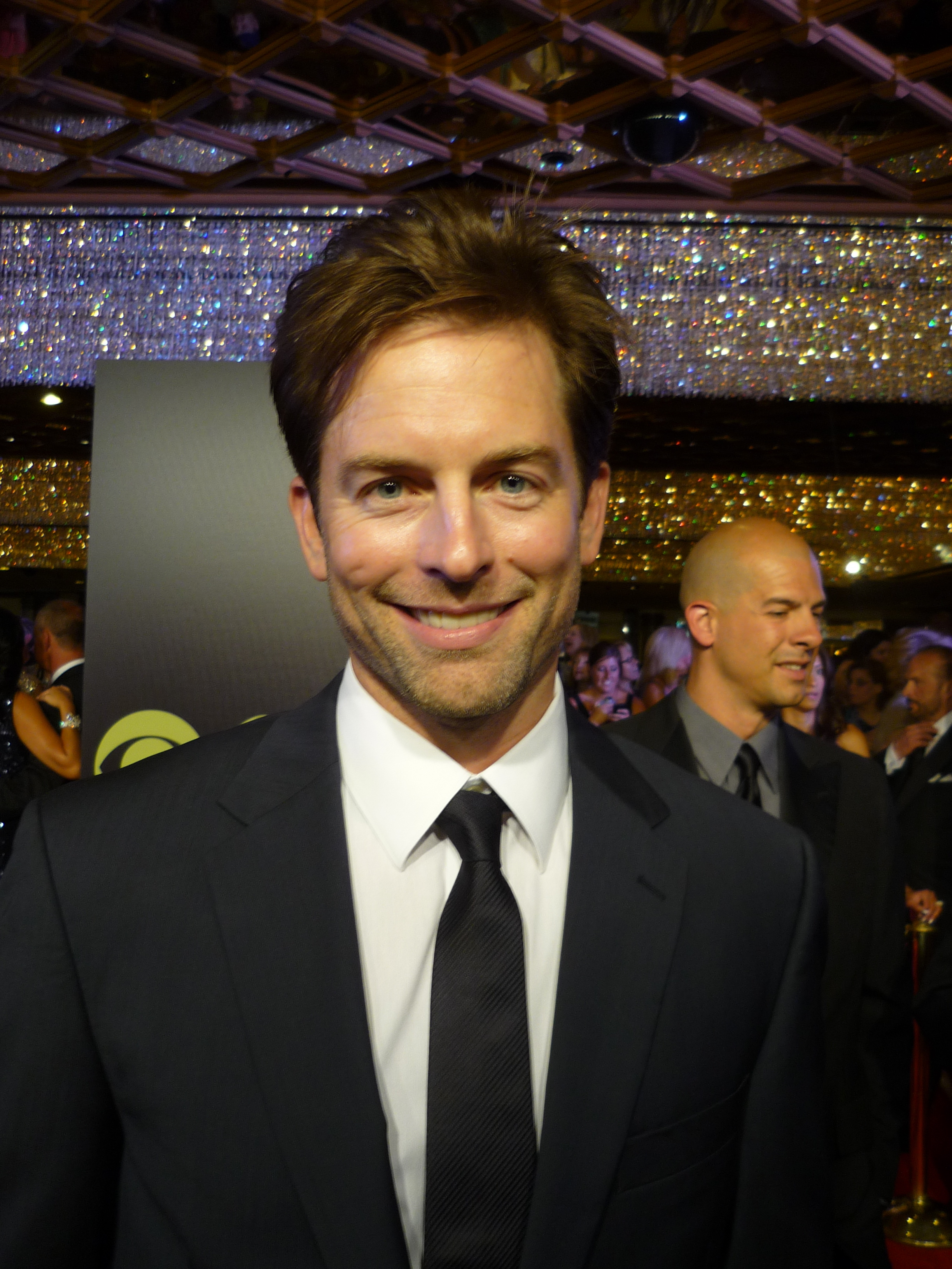 Actor Michael Muhney at 2010 Daytime Emmy Awards.